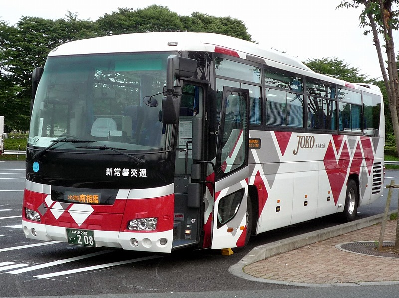 New Jobankotsu Isuzu GALA(PKG-RU1ESAN) Highwaybus "Iwaki-go"(Tokyo-MinamiSoma,Fukushima)